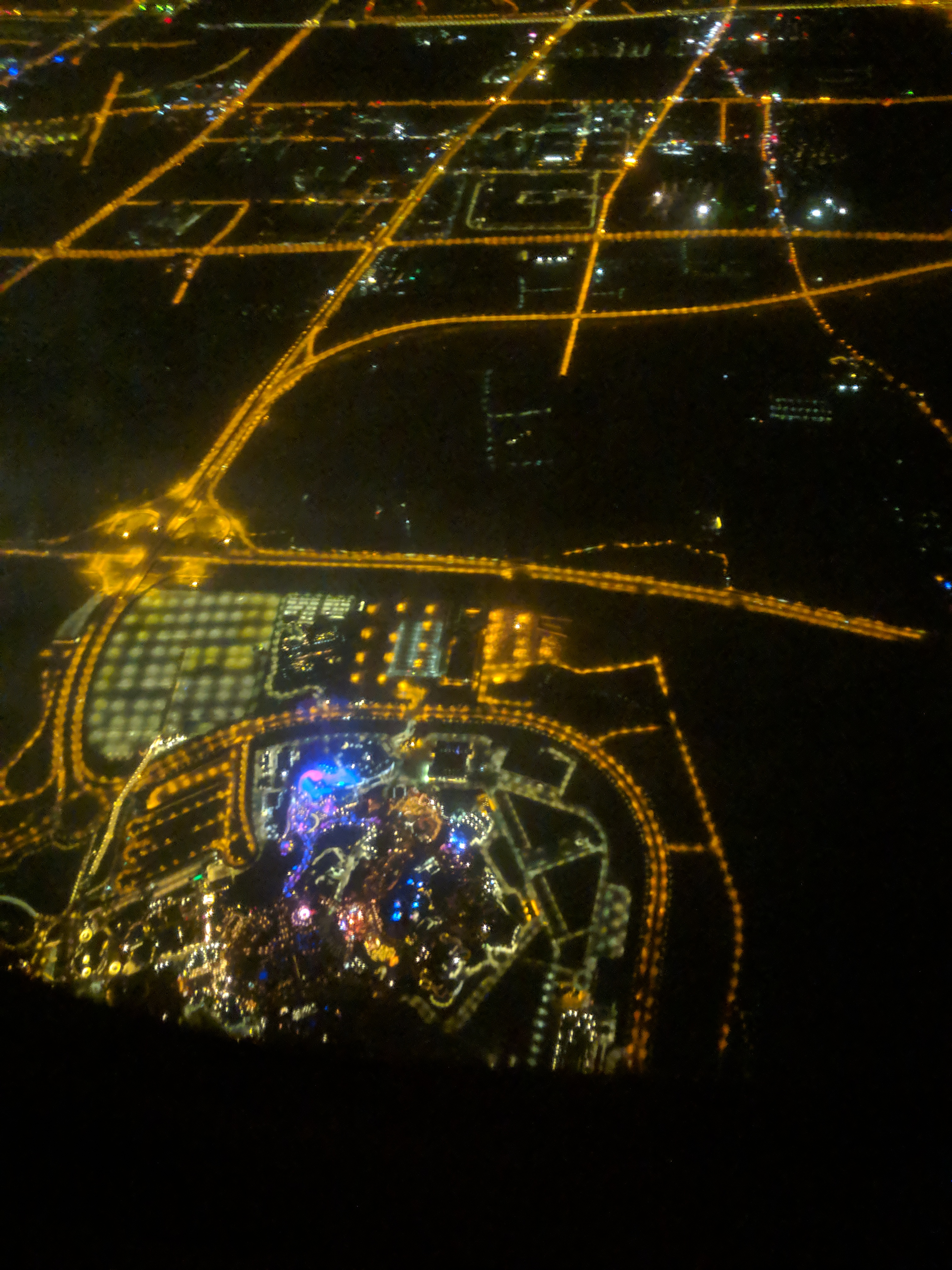 Overlooking Shanghai Disneyland